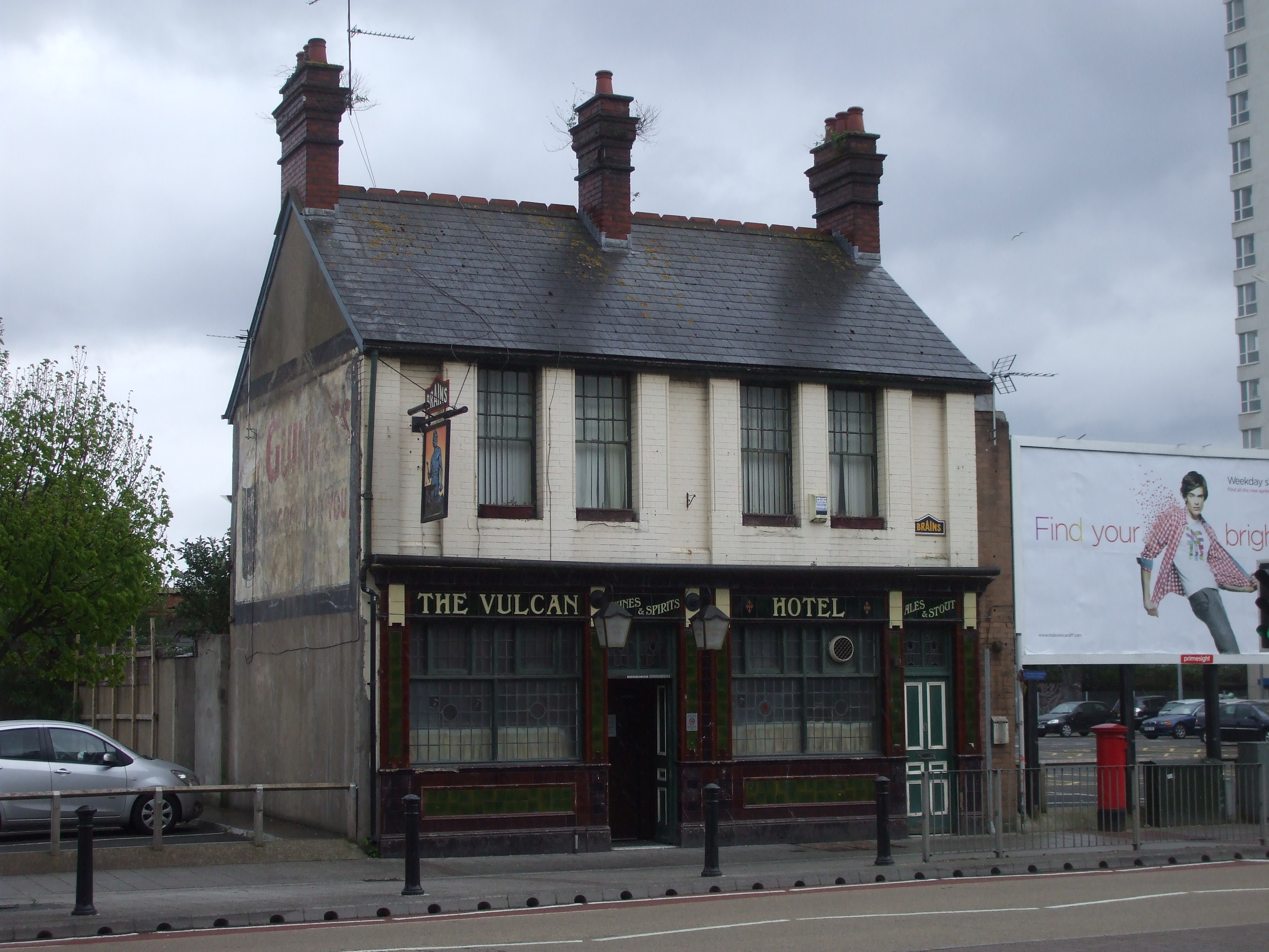 The Vulcan Hotel, Adam St, Cardiff